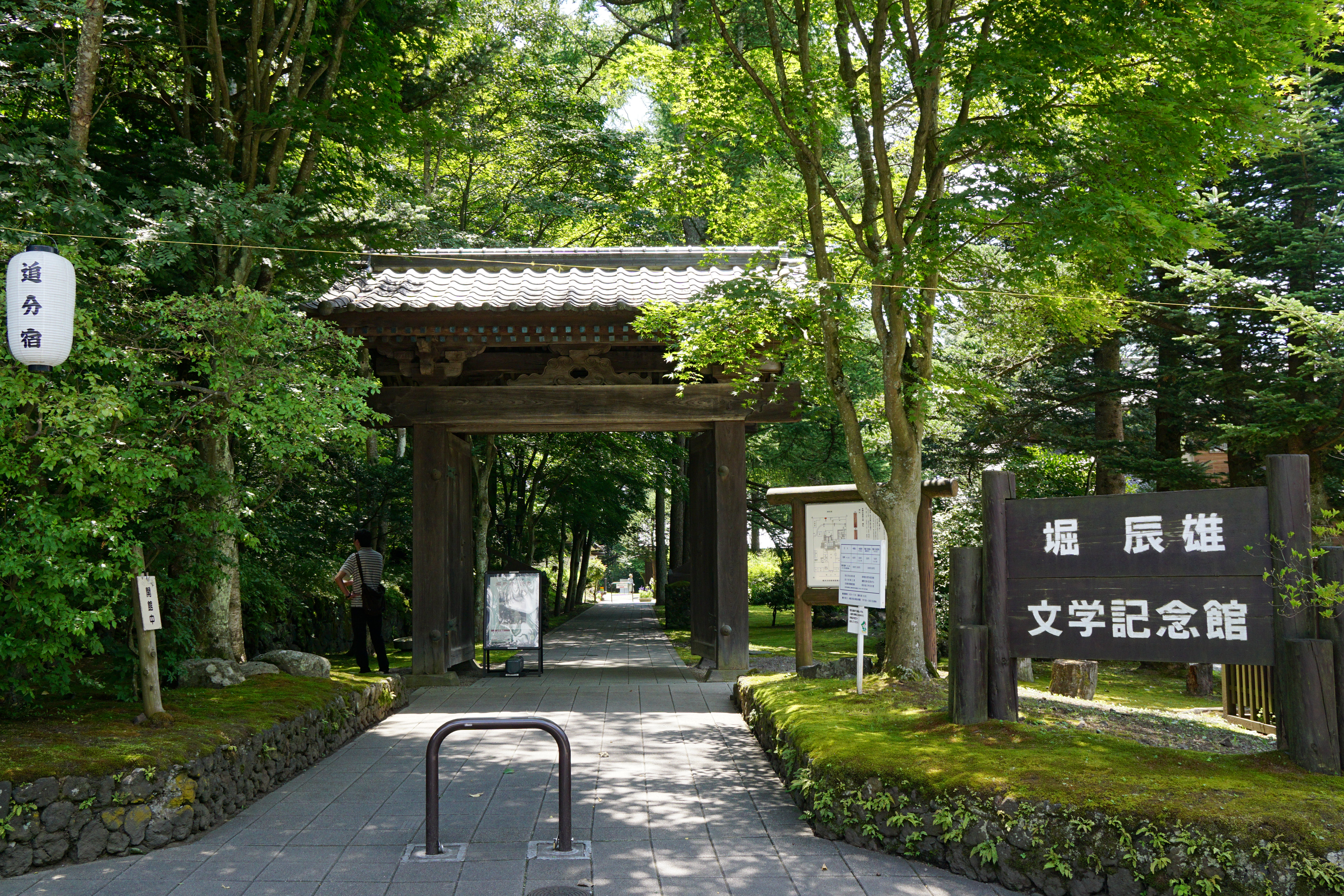 Tatsuo Hori literature Memorial in Karuizawa, Nagano prefecture, Japan.